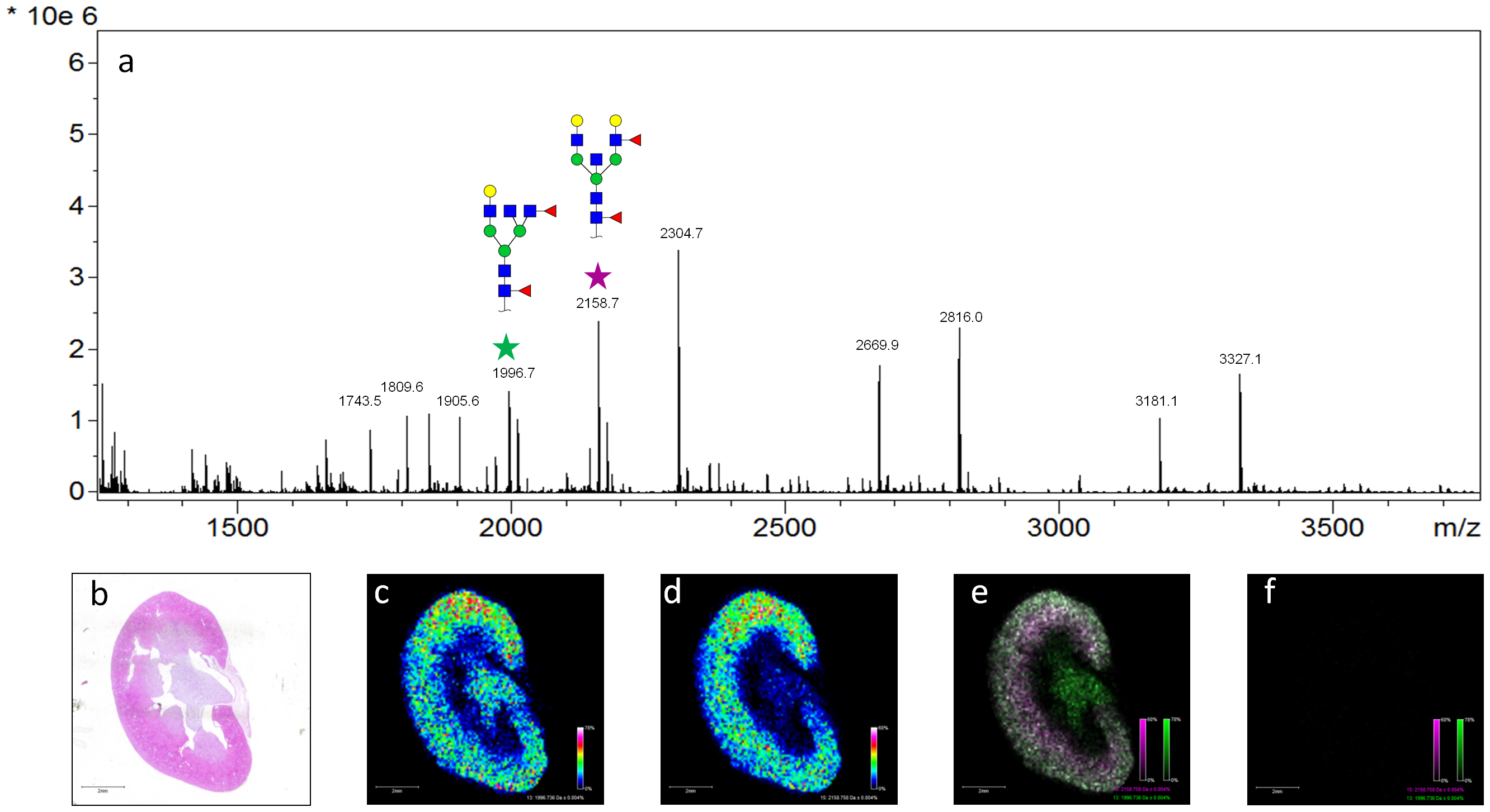 Mouse kidney. (a) A MALDI spectra from the tissue. (b) H&E stained tissue. The labeled peaks correspond to N-glycans that have been reported for the mouse kidney. Two of these ions were selected and their tissue localization was examined. Hex4dHex2HexNAc5 at m/z = 1996.7 (c) is located in the cortex and medulla while Hex5dHex2HexNAc5 m/z = 2158.7 (d) is more abundant in the cortex of the mouse kidney. An overlay image of these two masses is also shown (e), as well as the corresponding image from untreated control tissues (f).